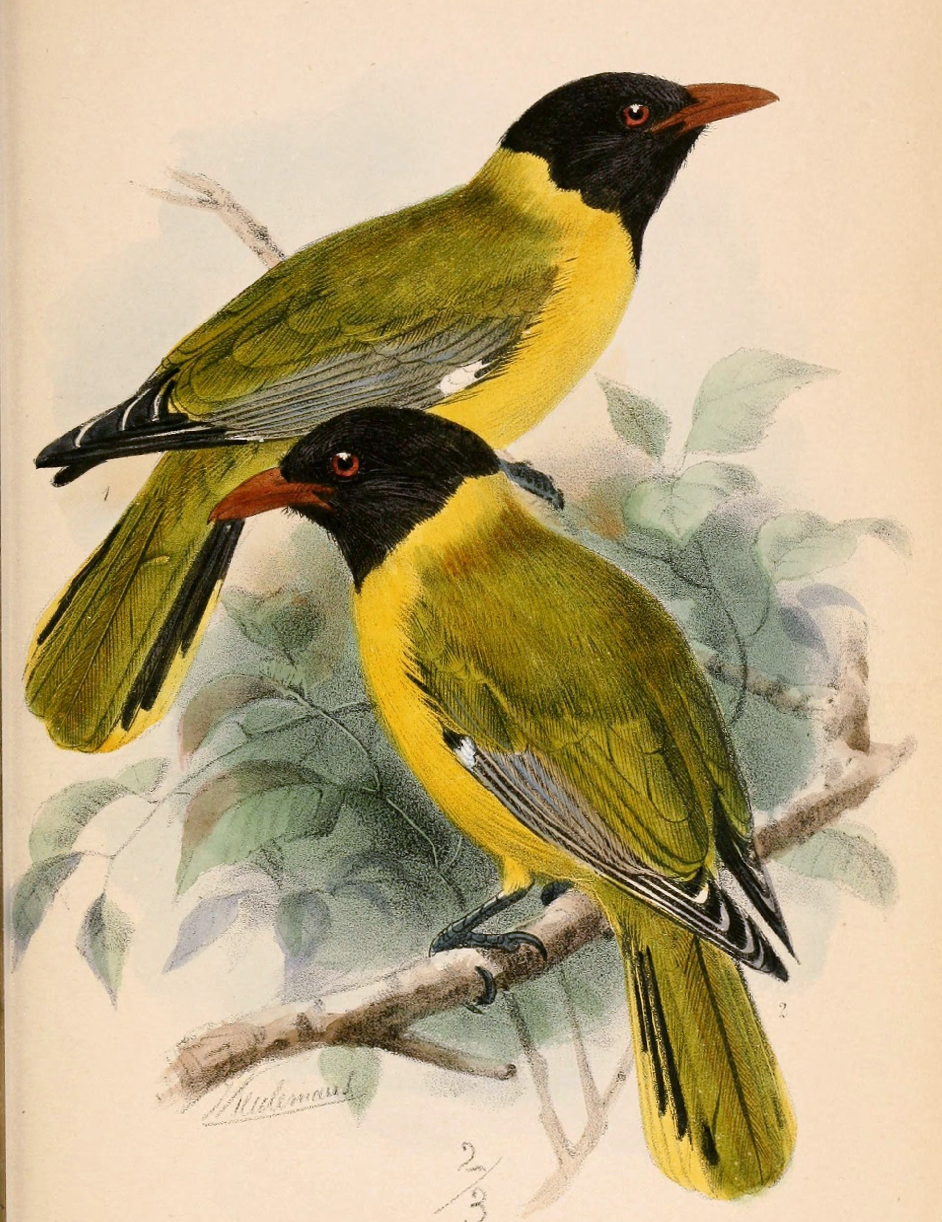 « Oriolus brachyrhynchus » = Oriolus brachyrynchus (Western Oriole) « Oriolus baruffii » = Oriolus brachyrynchus (Western Oriole)